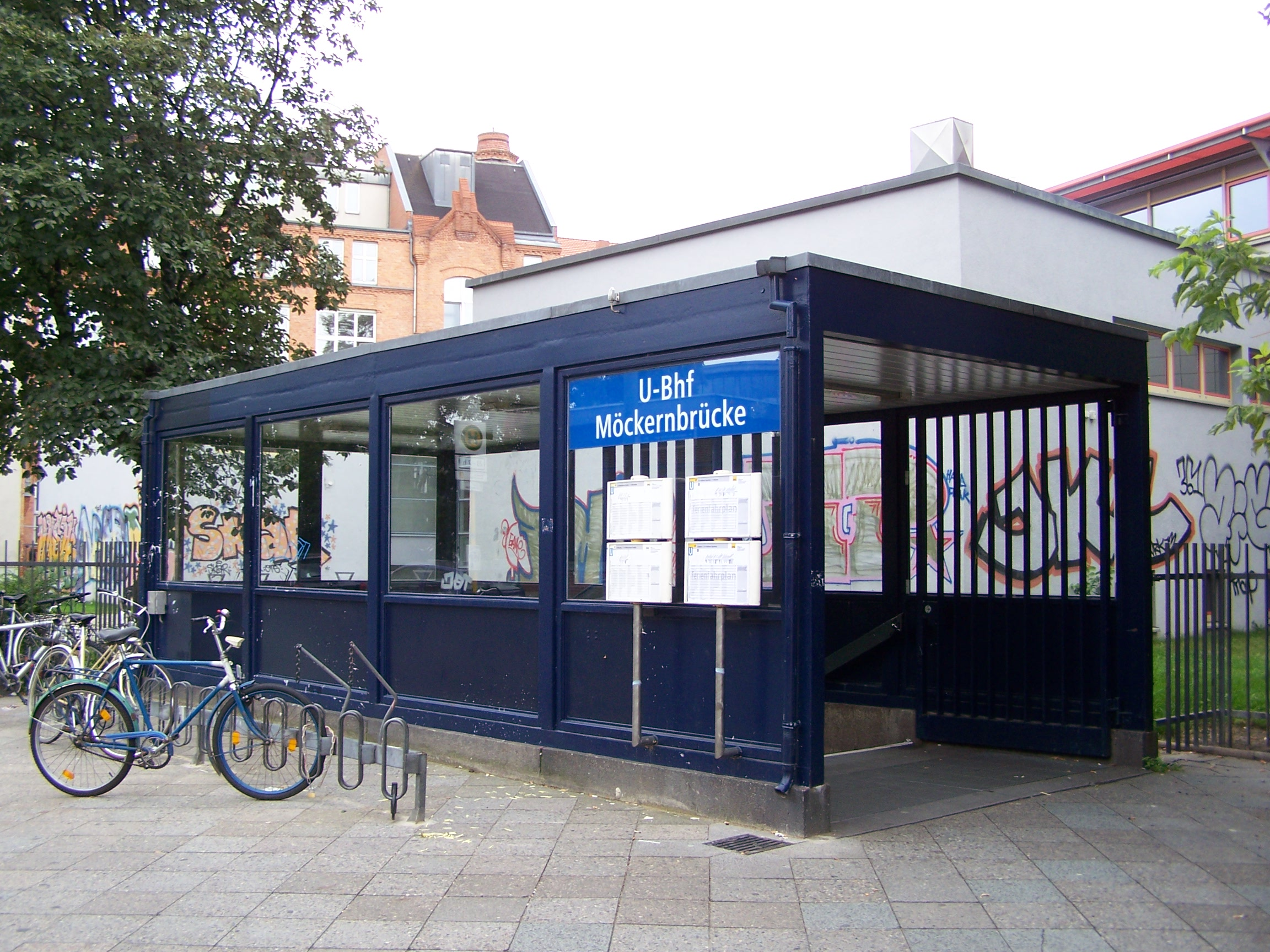 entrance to the underground station Möckernbrücke, lines u1 and u7, of the Berlin U-Bahn, Germany